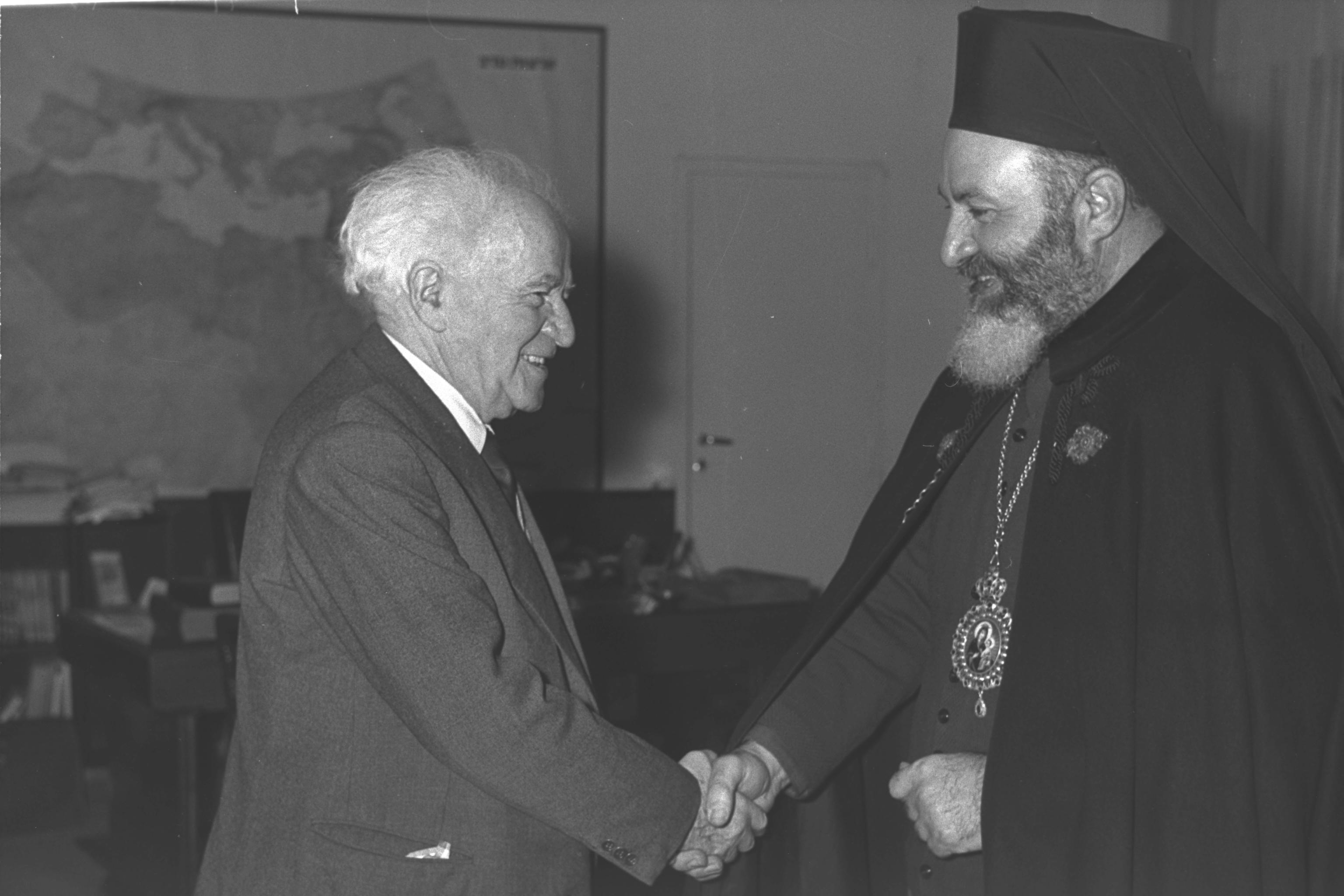 PRIME MINISTER DAVID BEN GURION (L) MEETING THE GREEK CATHOLIC ARCHBISHOP OF THE GALILEE GEORGE HAKIM, AT THE PRIME MINISTER'S OFFICE IN JERUSALEM